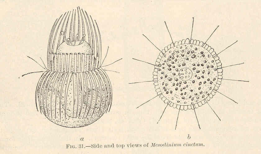 Mesodinium cinctum--Side and top views Subject: Mesodinium, Protozoa Tag: Invertebrates